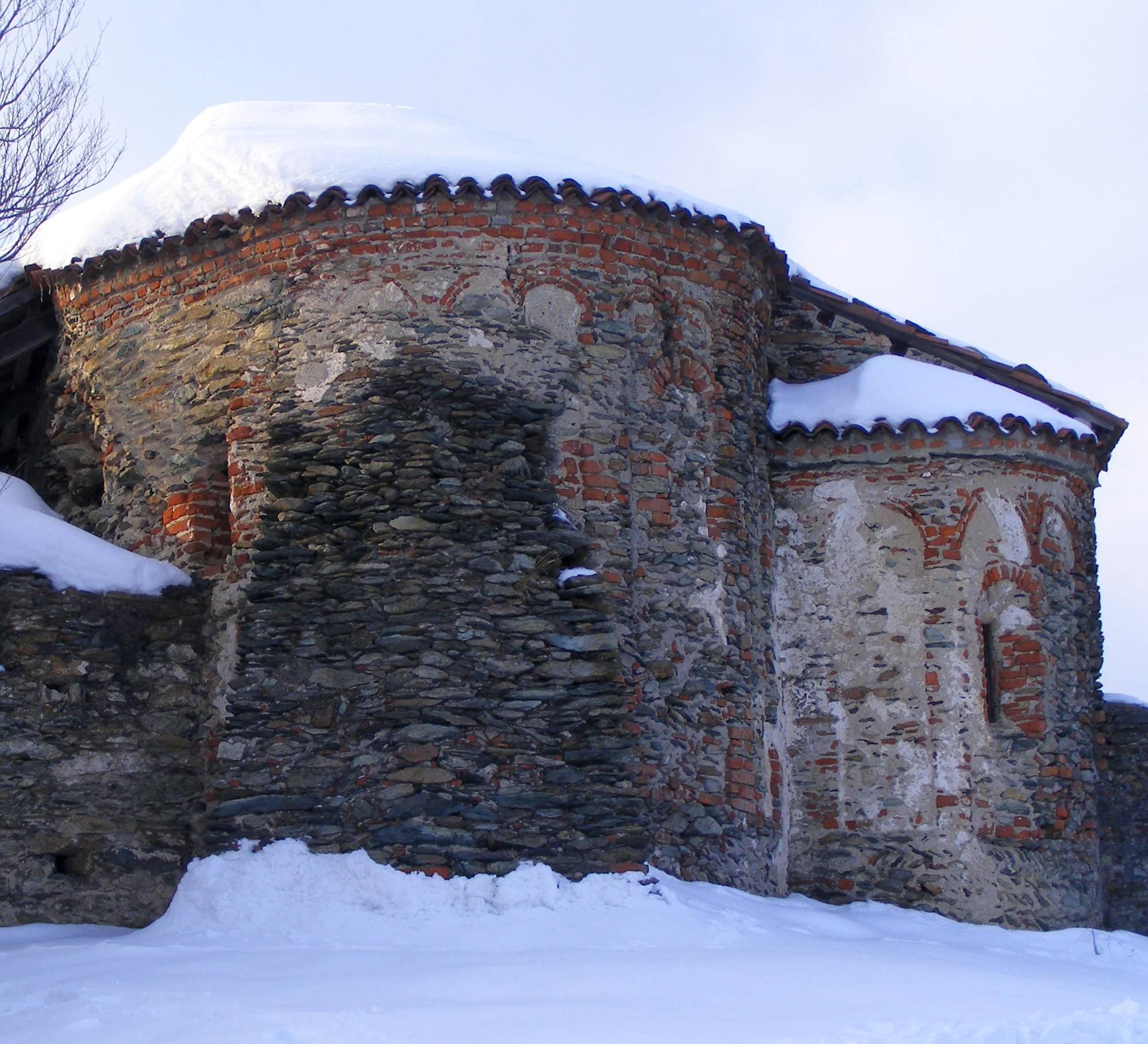 Monte San Giorgio (Piossasco, TO, Italy): roman church on the top